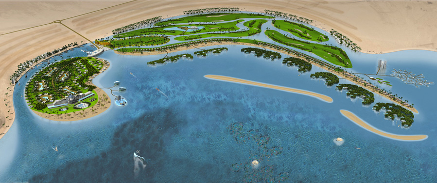 This Picture is showing a project for the Mirfa Hotel, Abu Dhabi, UAE by Lechner-Lechner-Schalhammer architects